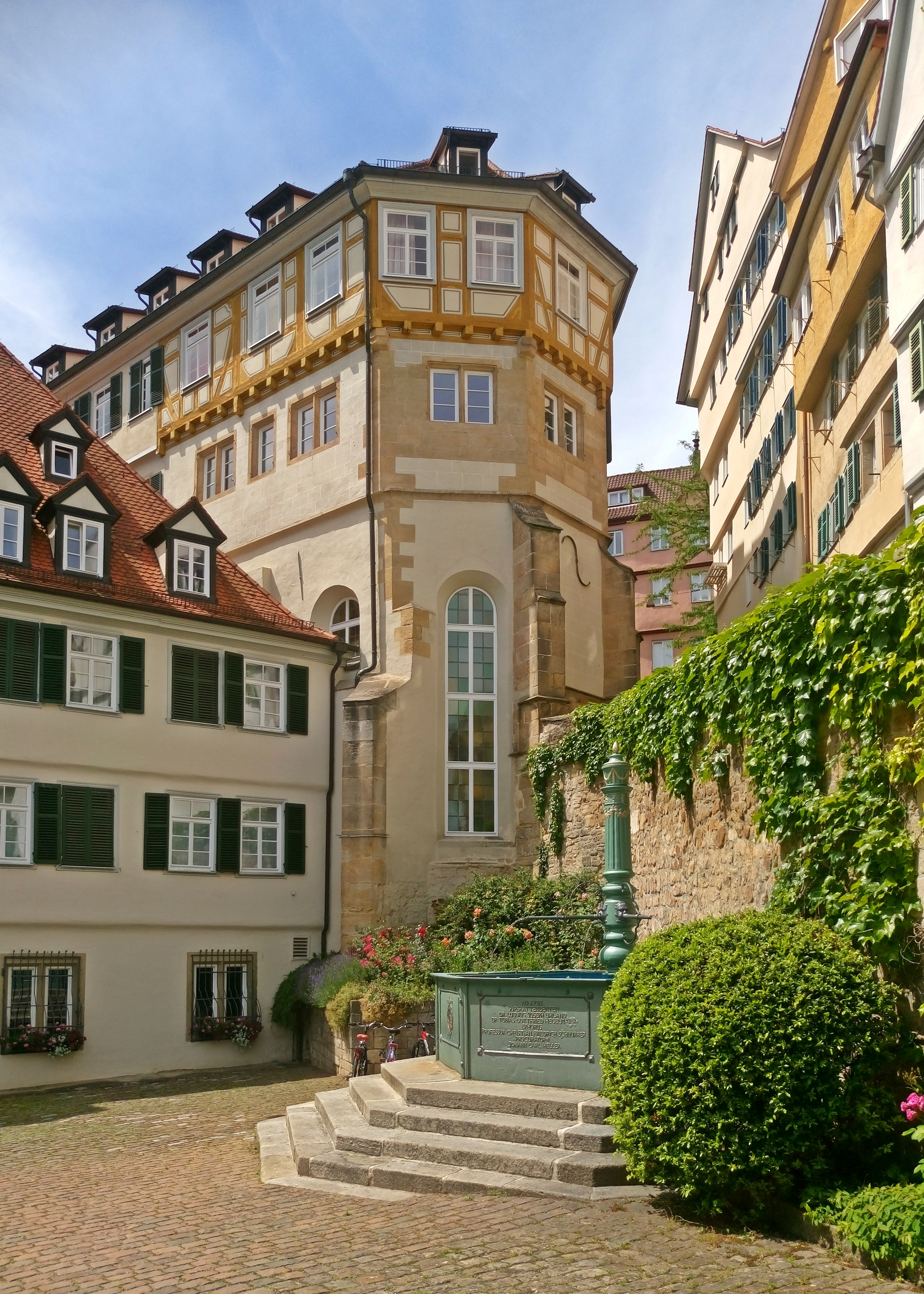 The Tübinger Stift, Baden-Württemberg.